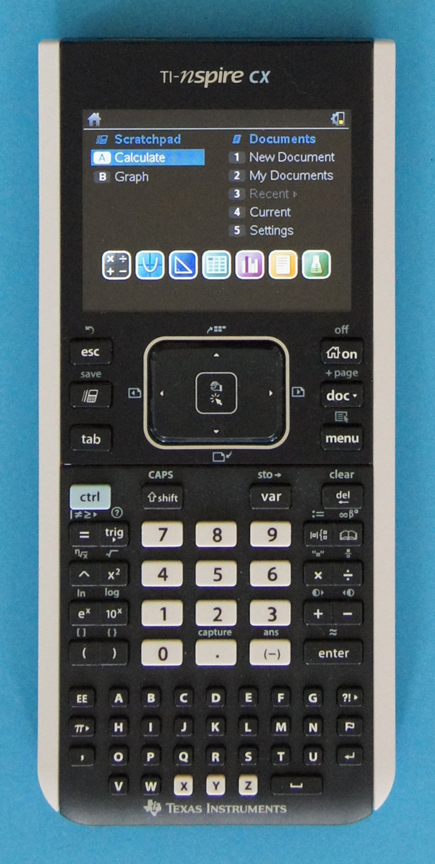 A Front view of a Texas Instruments Nspire CX calculator.